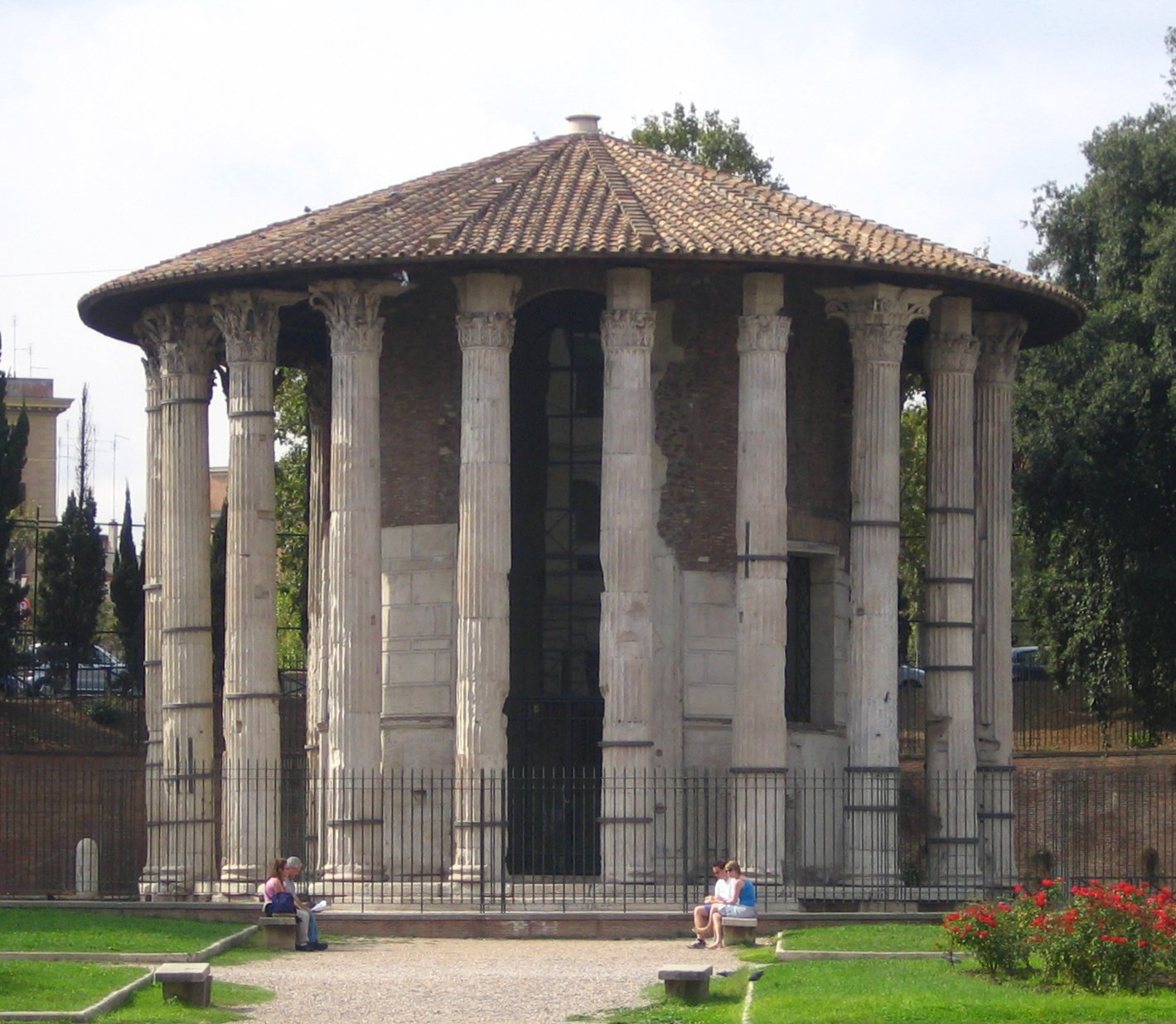 Westa or Hercules Temple on Forum Boarium , Rome, Italy